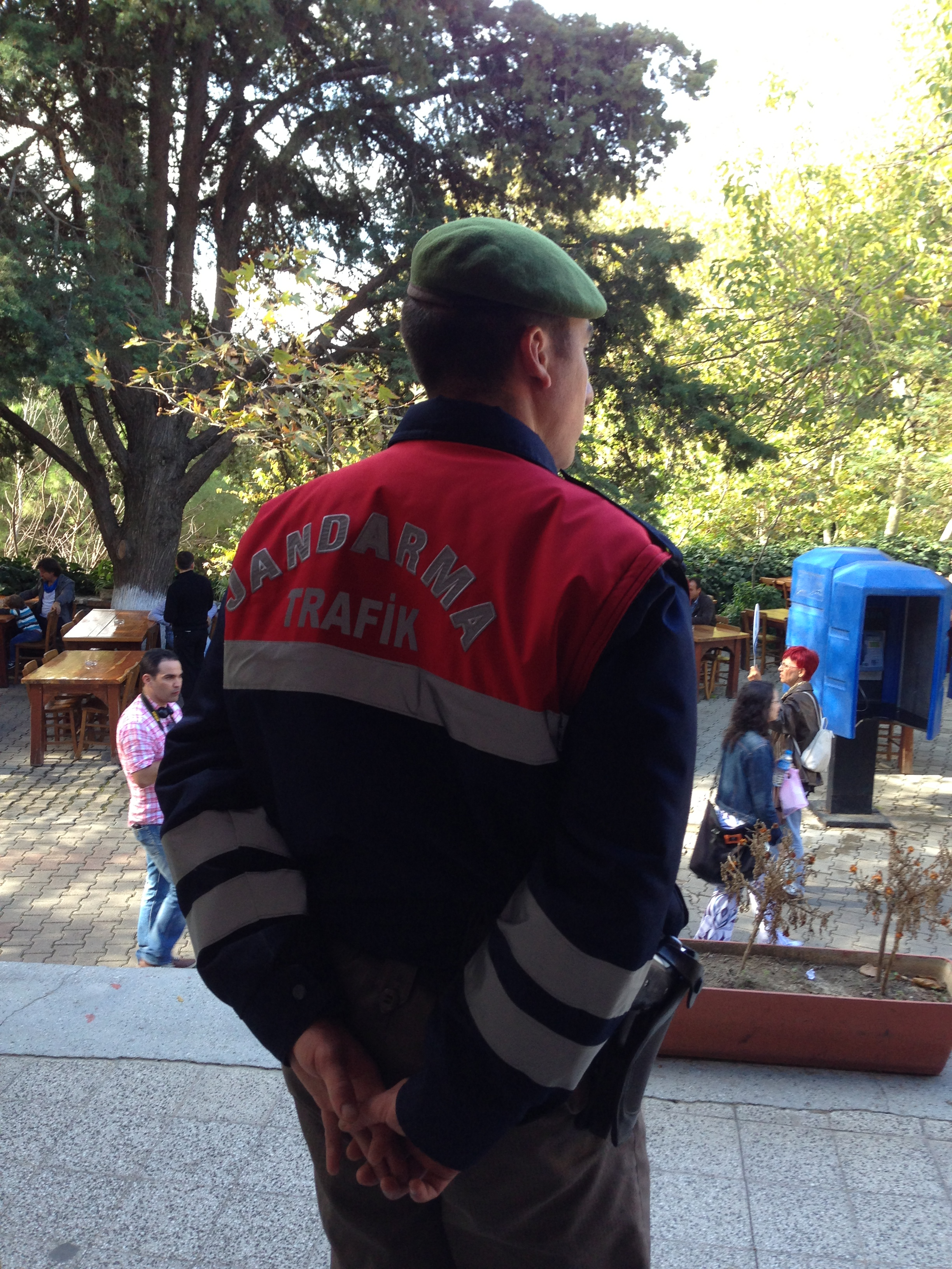 A Jandarma officer stationed in a Gendarmerie station in the House of the Virgin Mary site in Ephesus, Izmir Province, Turkey.